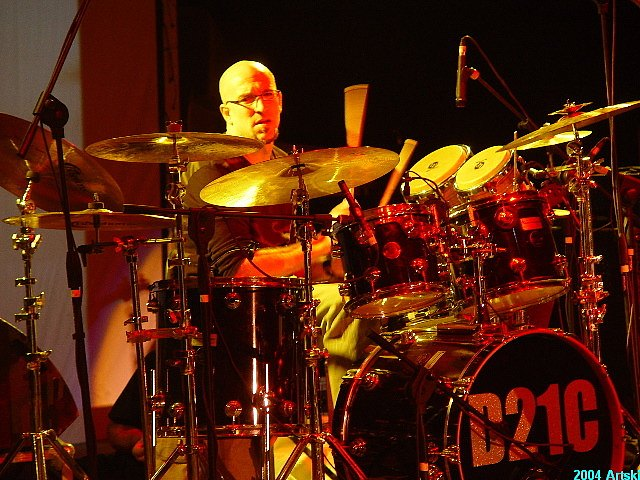 Ty Dennis